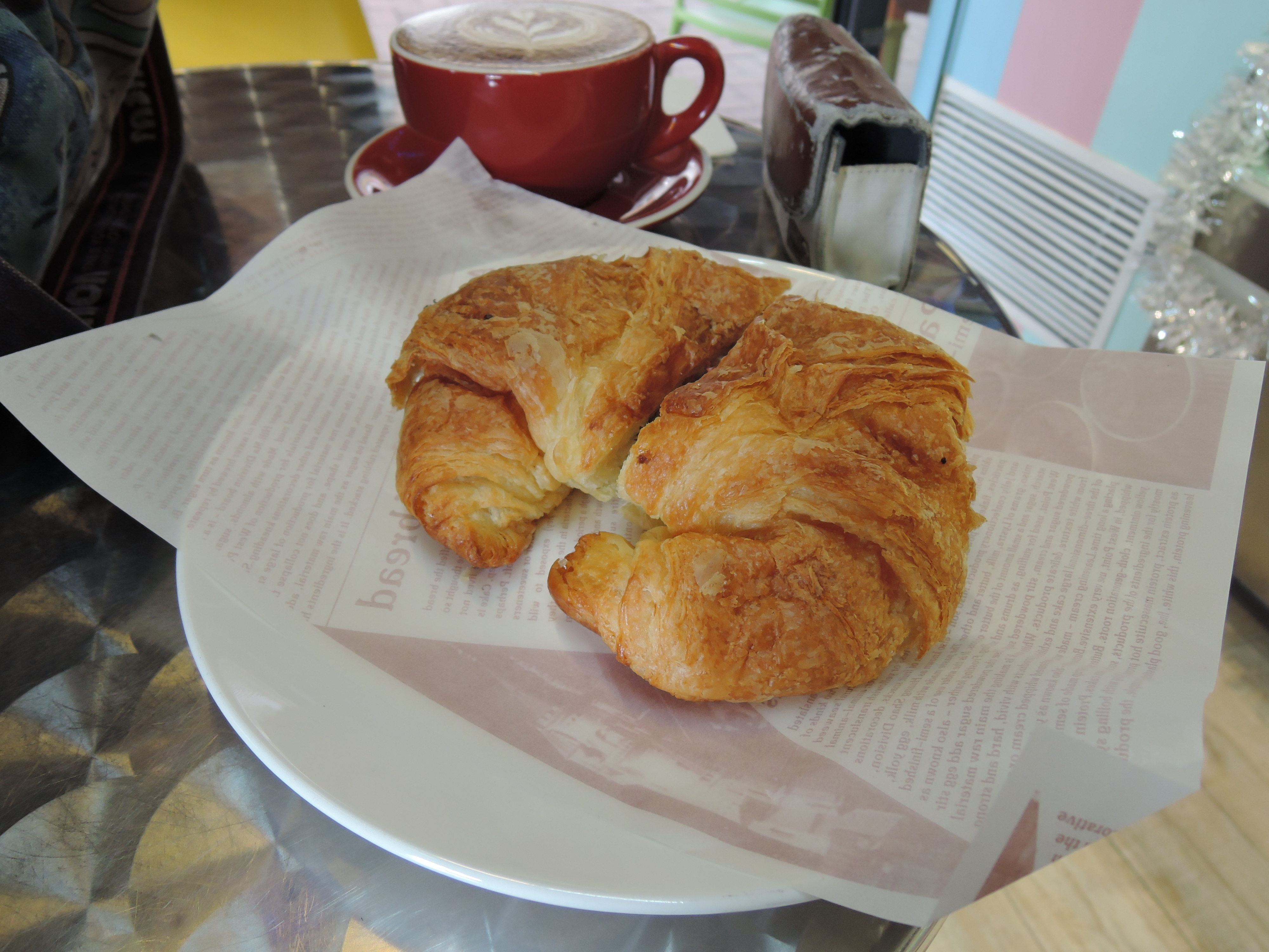 A little croissant in coffee shop